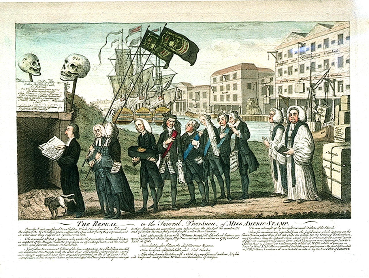 A colored version of The Repeal. - or the Funeral Procession of Miss Americ-Stamp., a famous 1760s political cartoon depicting the repeal of the Stamp Act 1765. George Grenville, whose ministry passed the act, carries a coffin representing the act, with other notable politicians in the funeral train.